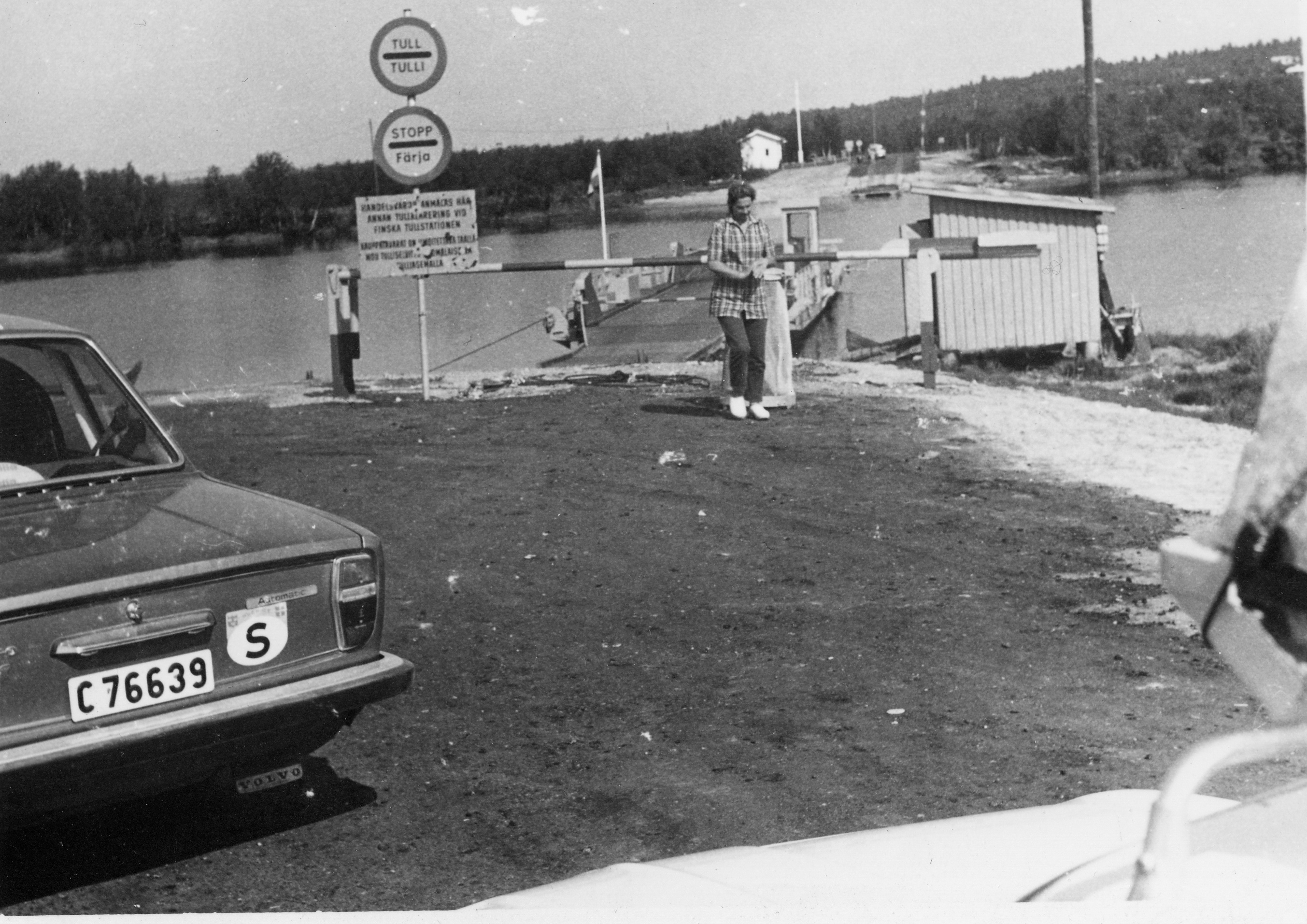 Ferry in Karesuando, Sweden. On the other side Kaaresuvanto, Enontekiö, Finland. A brigde replaced the ferry in 1980.